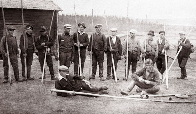 Timber rafters on Kitinen, Finland during inter-bellum era